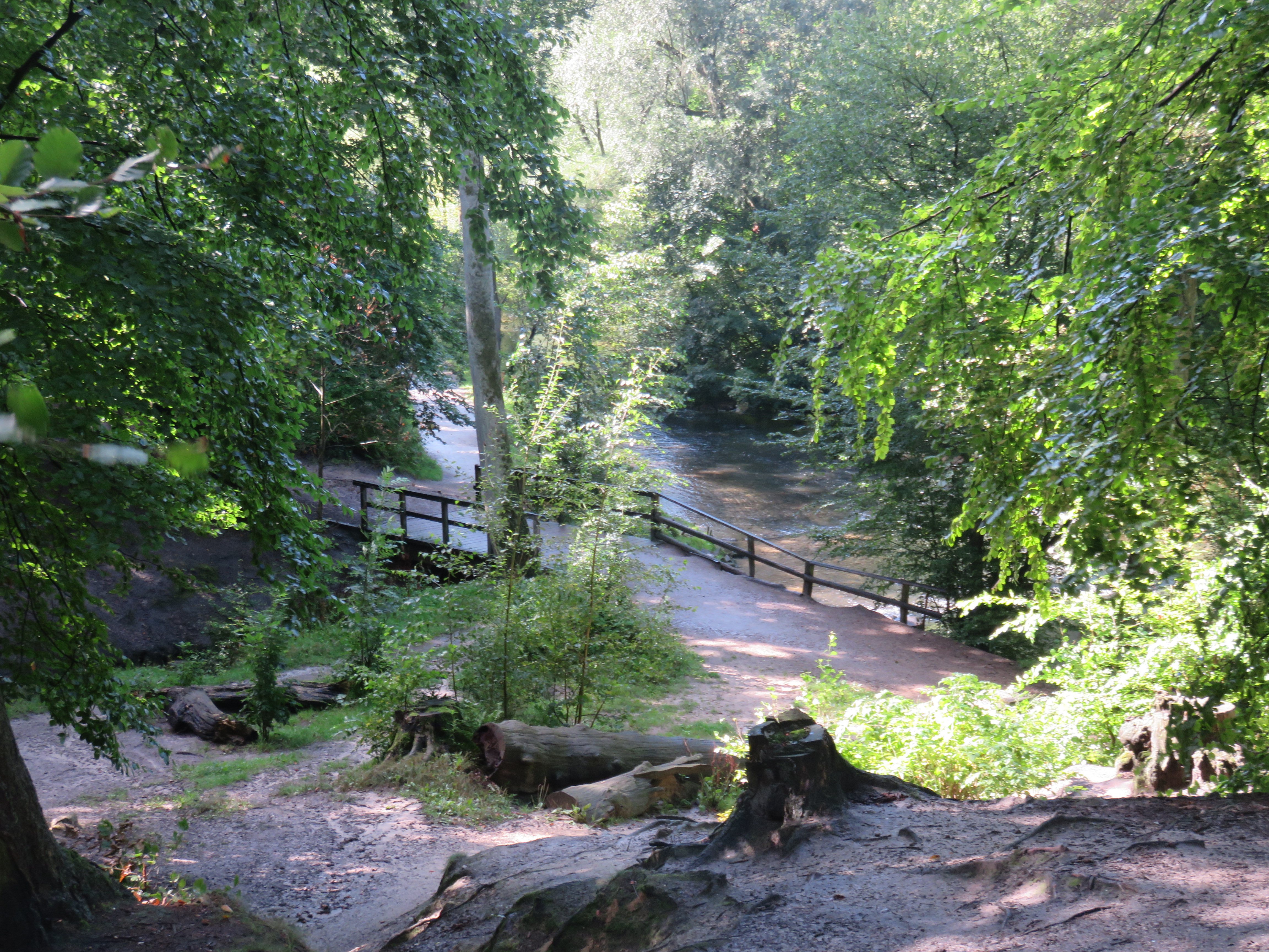 Alsterwanderweg at Randelpark